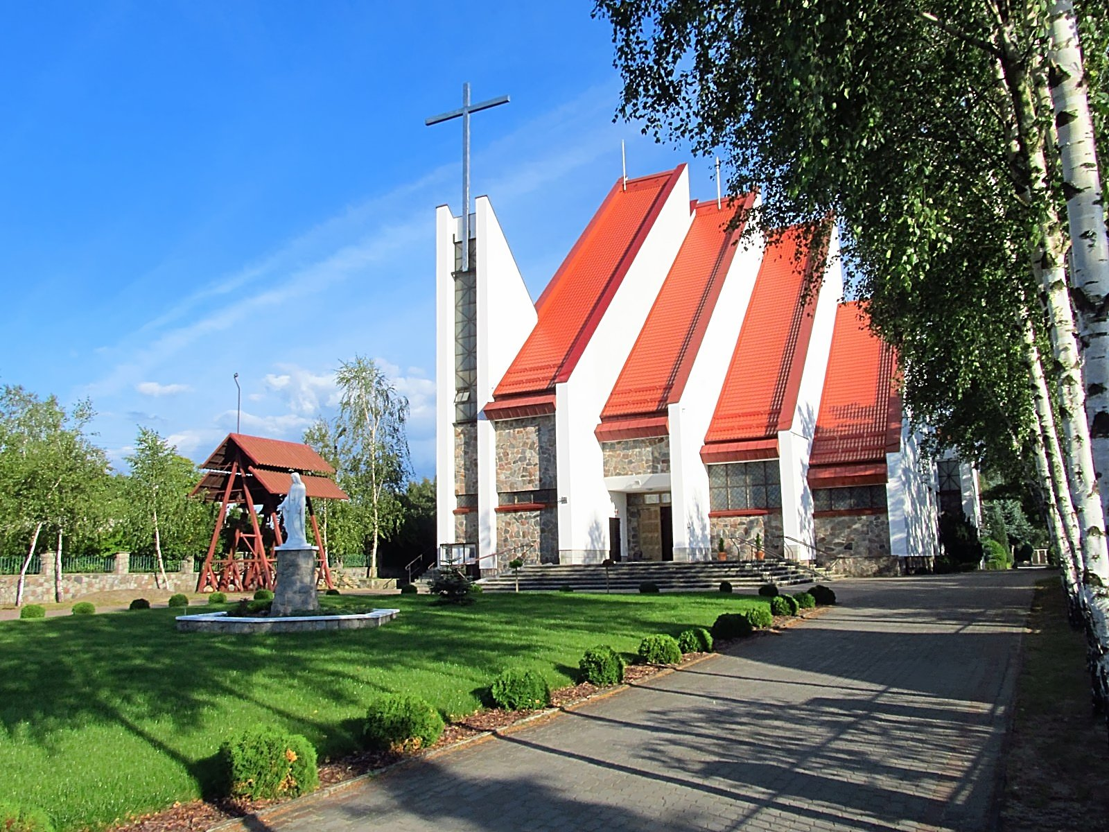 Church and developed land